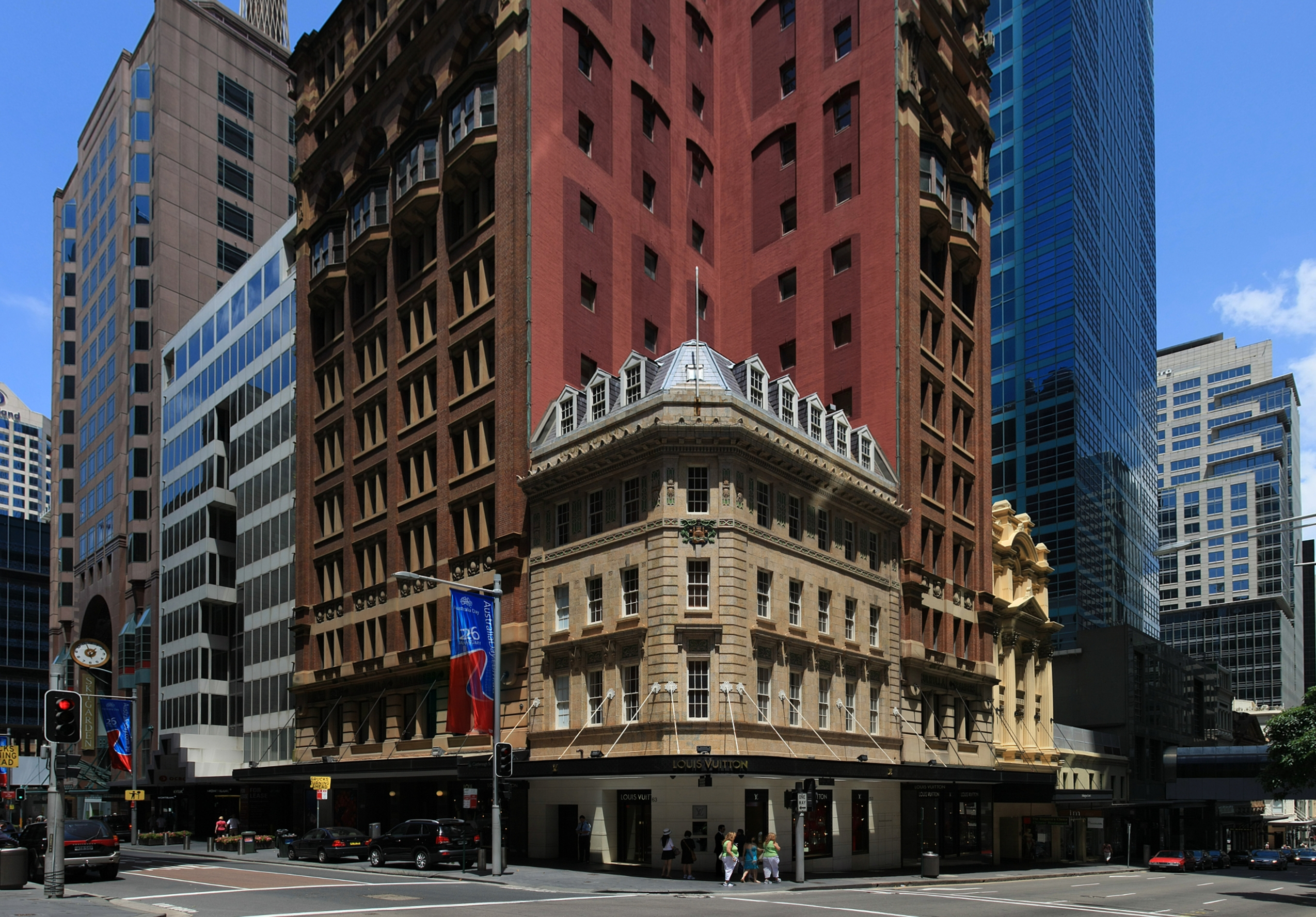 Corner of King and Castlereagh Street, Sydney, New South Wales